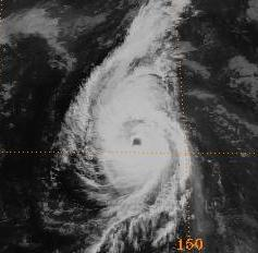 Typhoon Zelda